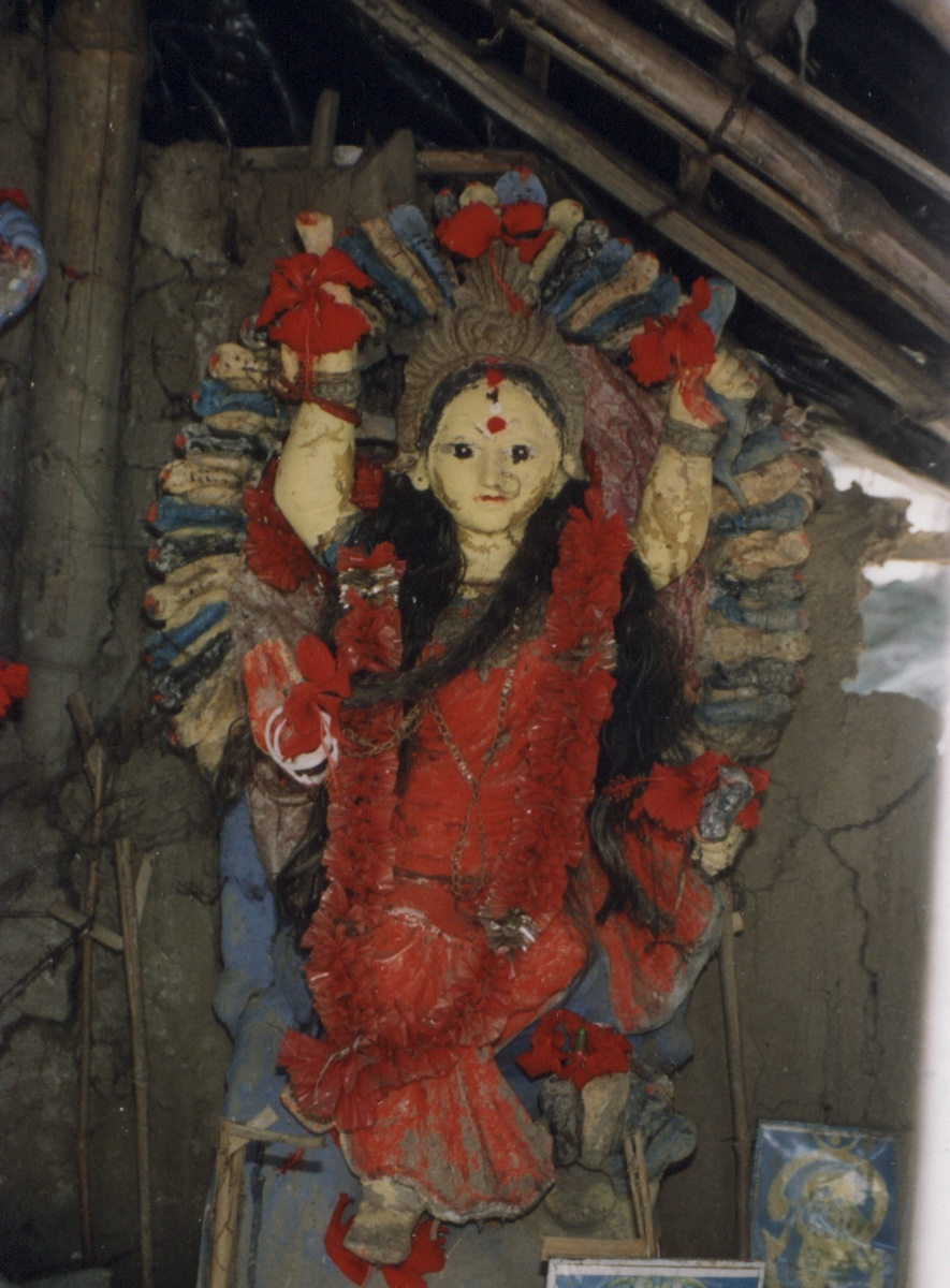 Hindu-Goddess Manasa, a Naga (Snake Goddess), in a hut made of mud in a village in the Sundarbans, Westbengal/India